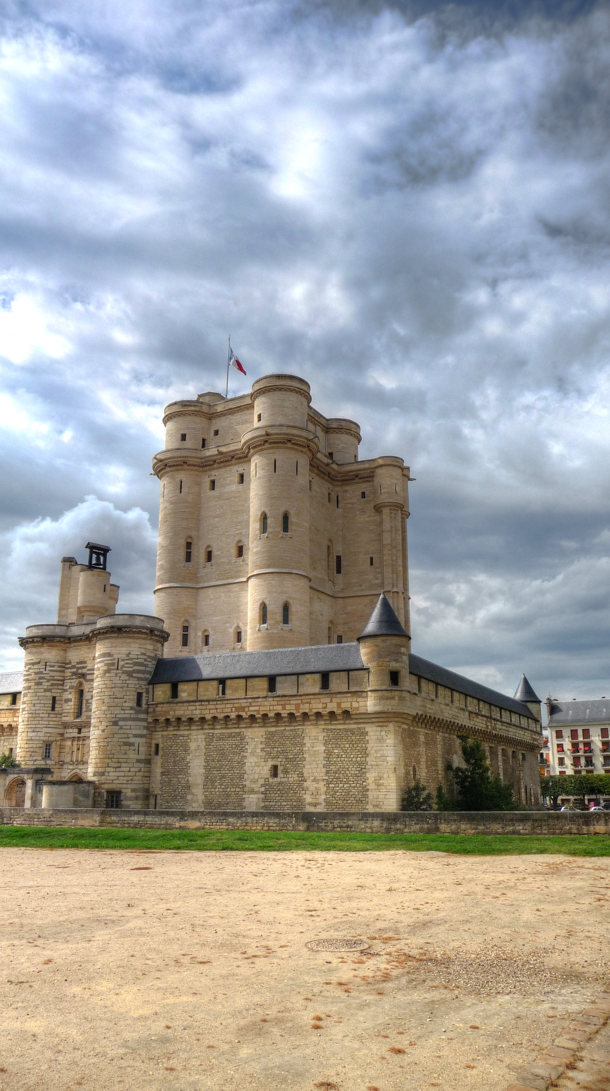 The Donjon of the Château de Vincennes